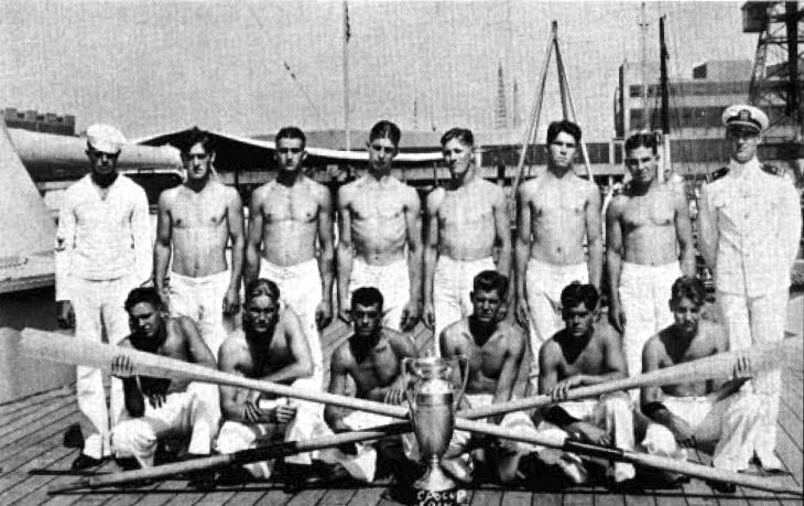 The whaleboat crew of the U.S. Navy battleship USS Arizona (BB-39) poses with the Battenberg Cup after winning the 1931 race.